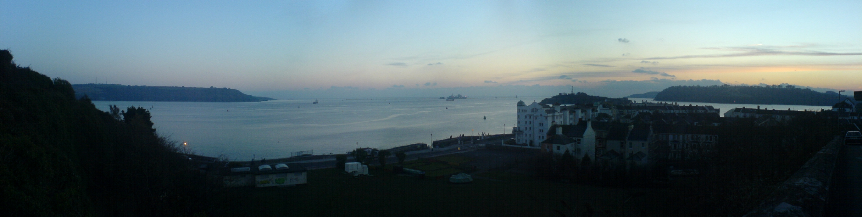 Looking towards the sea from Cliff Road, Plymouth, outside Quality Hotel.Picture taken 28/12/05.